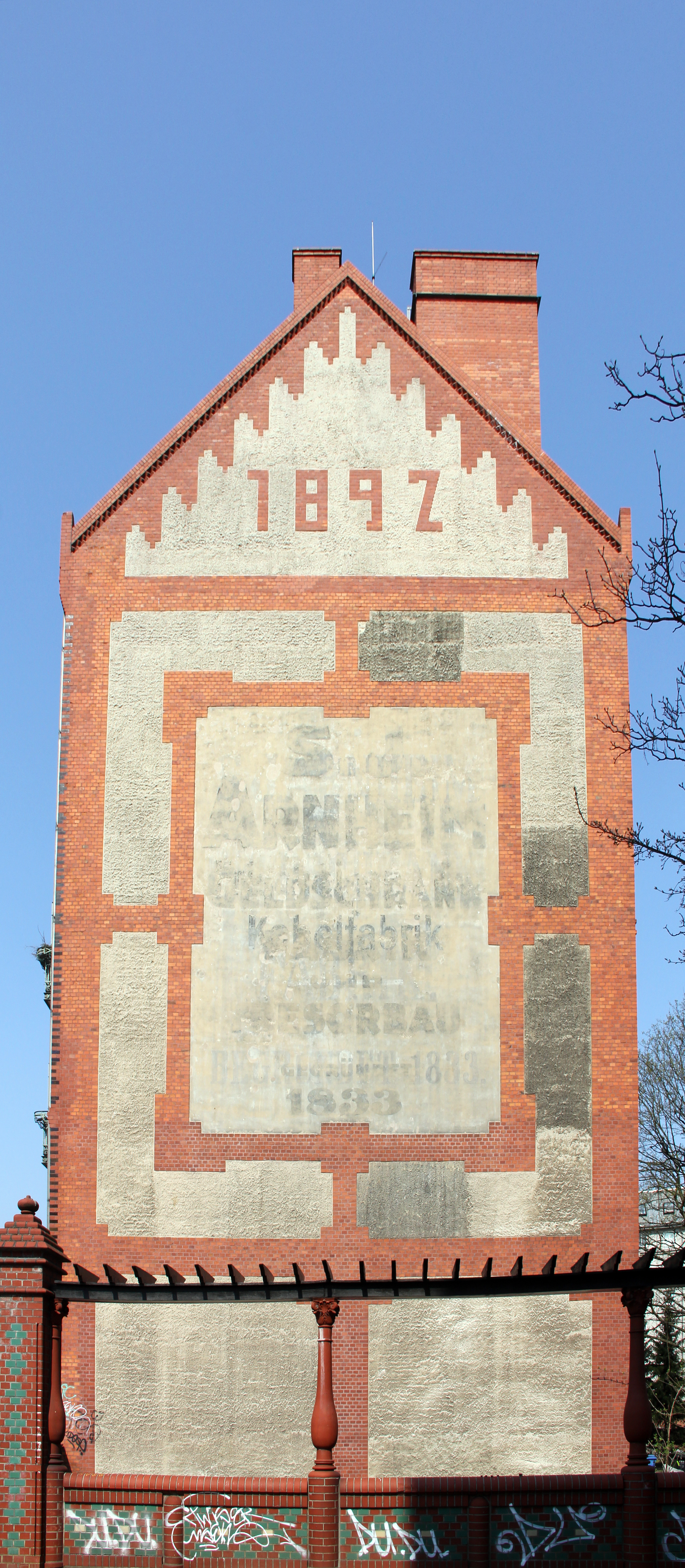 Murals, Tresorfabrik S. J. Arnheim, Badstraße 40-41, Berlin-Gesundbrunnen, Germany